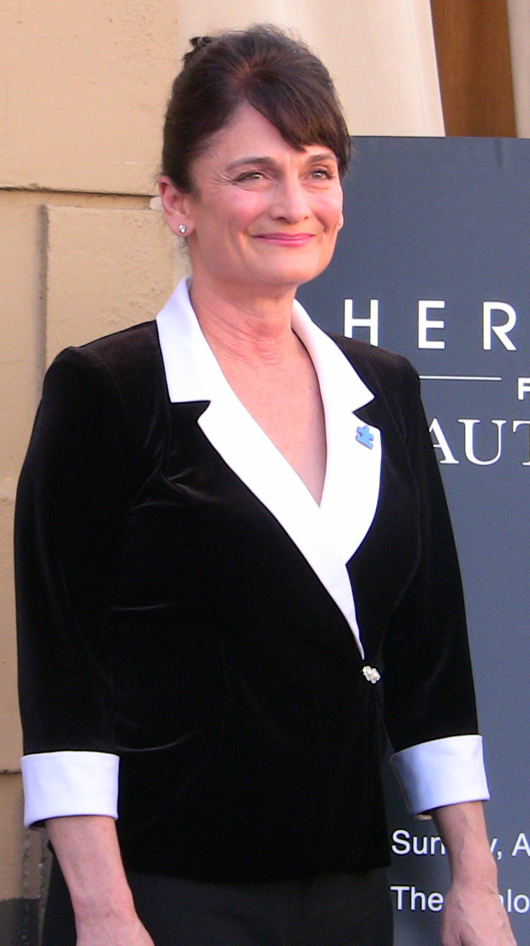 Actress Cristine Rose at Heroes for Autism event, Hollywood, California.